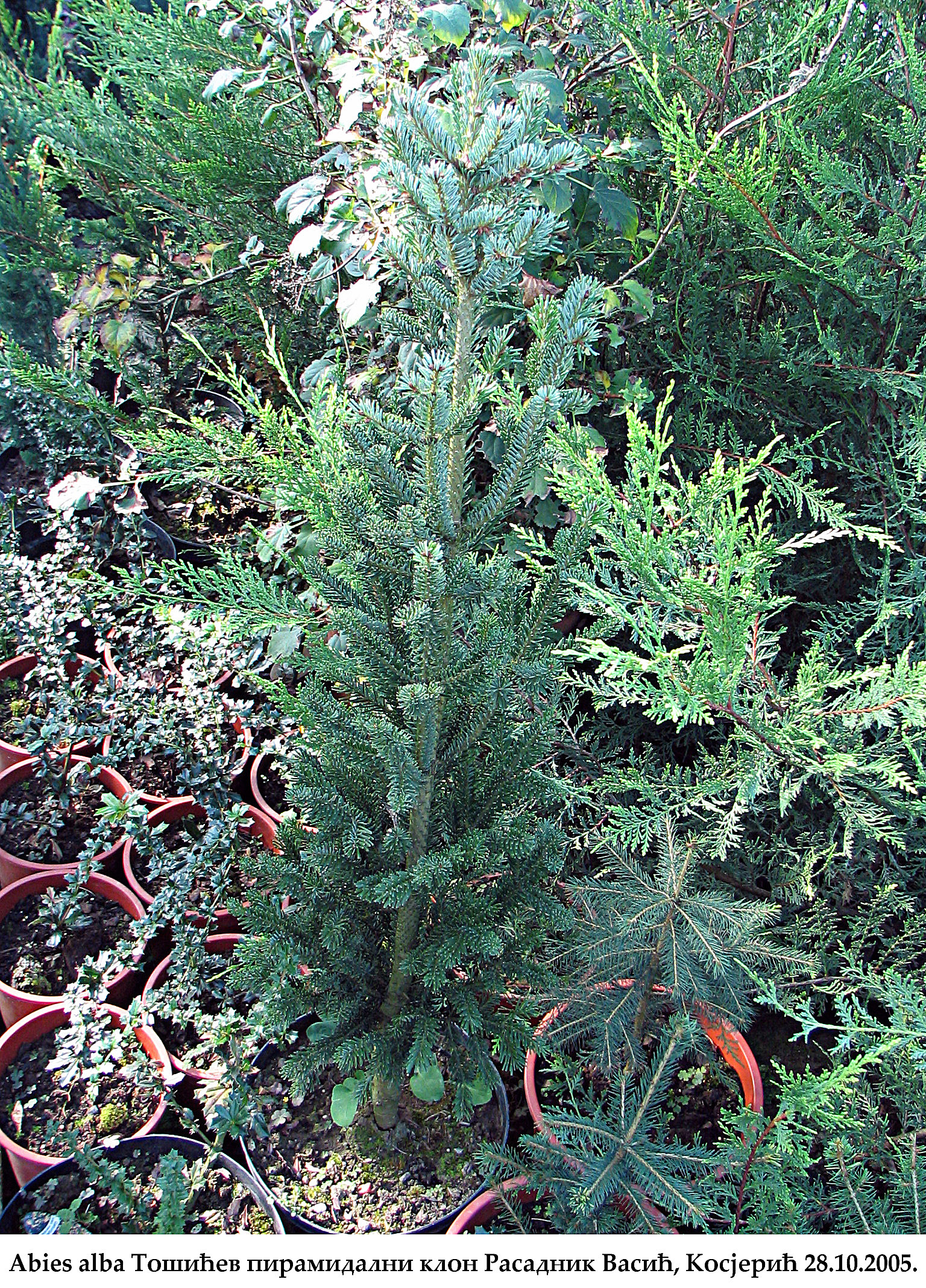 Abies alba 'Puramidalis' in Vasic nursery, Kosjeric (Serbia)